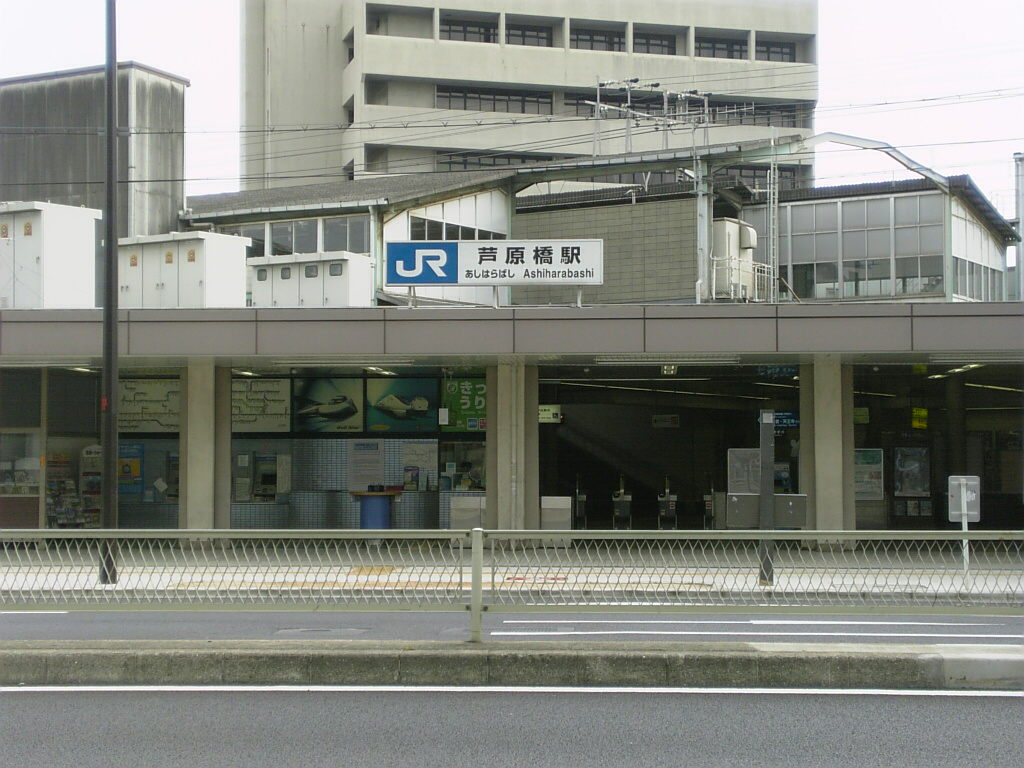 JR Ashiharabashi Station north side